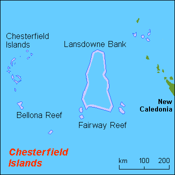 Map (rough) of Chesterfield islands, New Caledonia, own work composed from various mapreferences